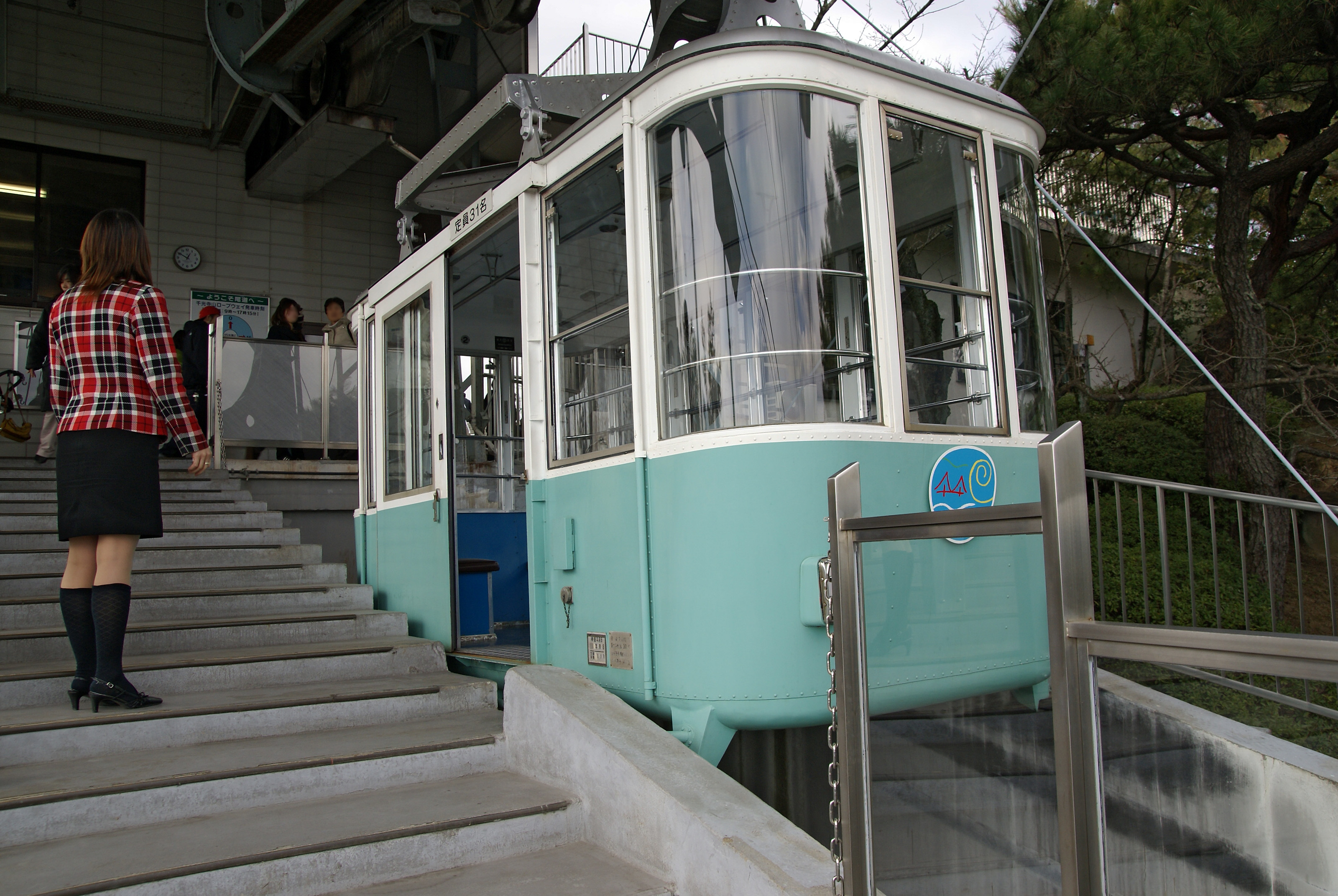 Senkojiyama Ropeway in Onomichi, Hiroshima prefecture, Japan